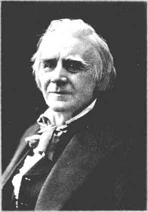 Violinist and composer Ole Bull